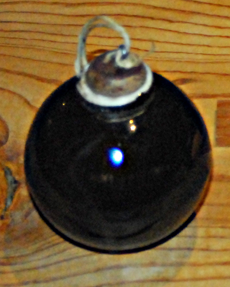 Japanese Porcelain Grenade